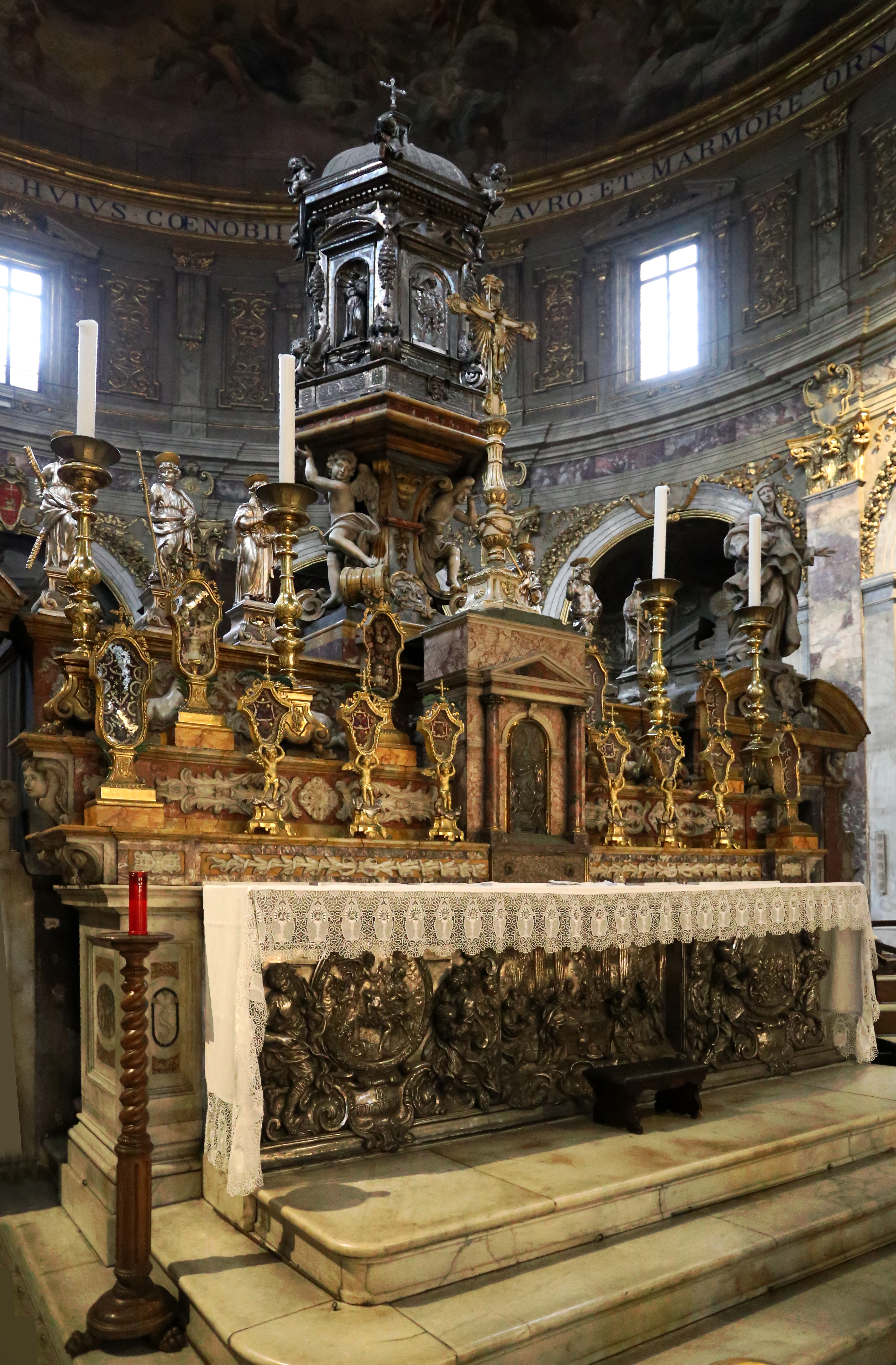 Santissima Annunziata (Florence)